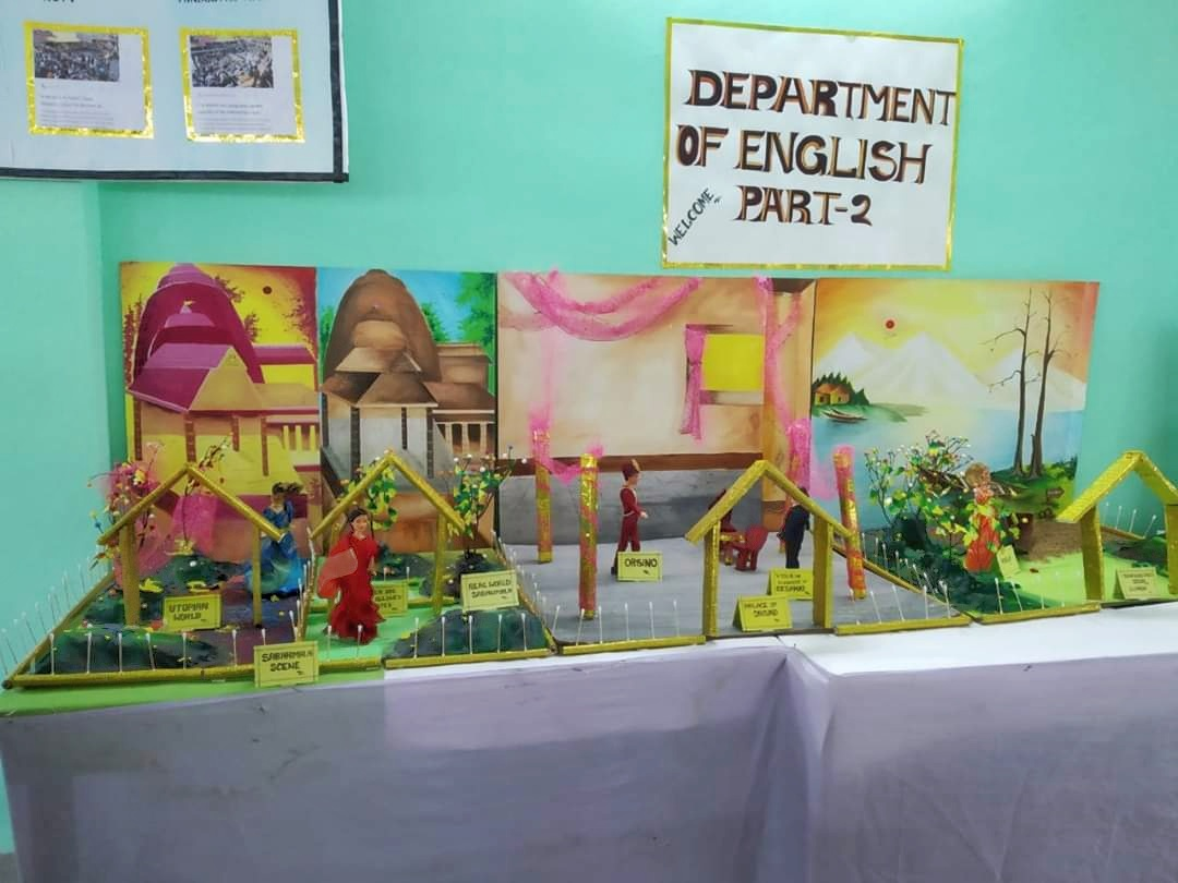 It's a model prepared by the students of Second Year, English Honours. Name of The Model- Shakespeare's "Twelfth Night" in the context of Contemporary Society.